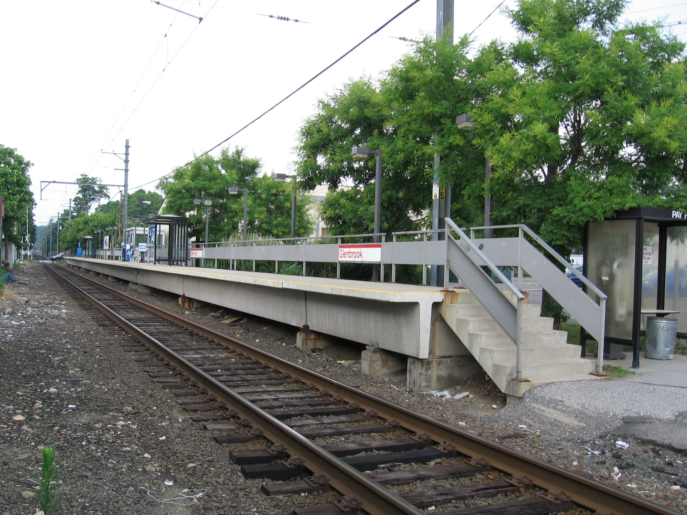 View of the platform at the Glenbrook (looking north), in the Glenbrook section of Stamford.